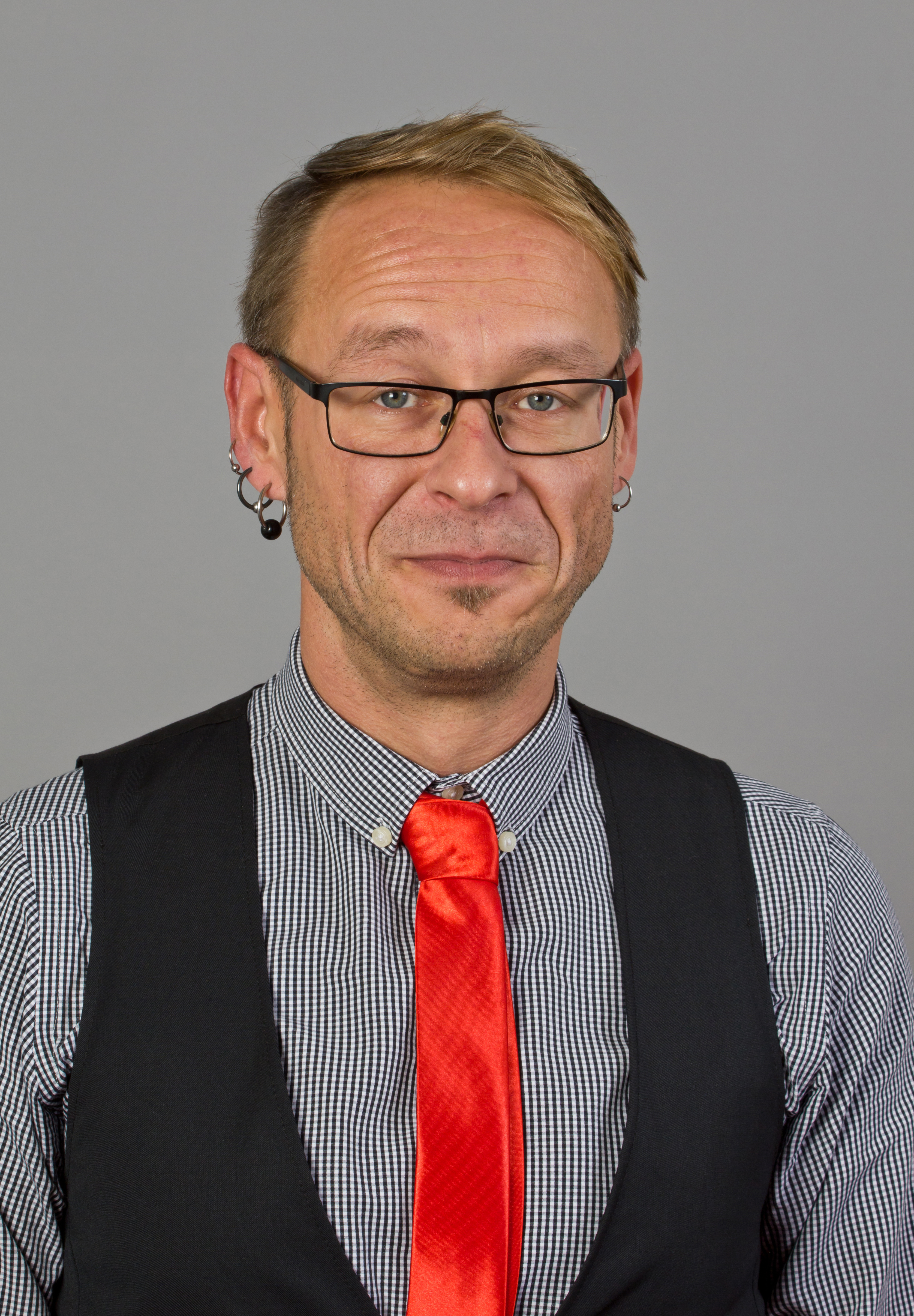 Carsten Schatz, politician from Germany, member of Abgeordnetenhaus of Berlin (as of 2013)